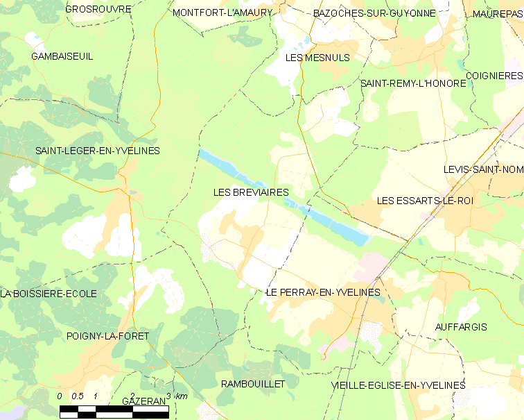 Map of French municipality Les Bréviaires